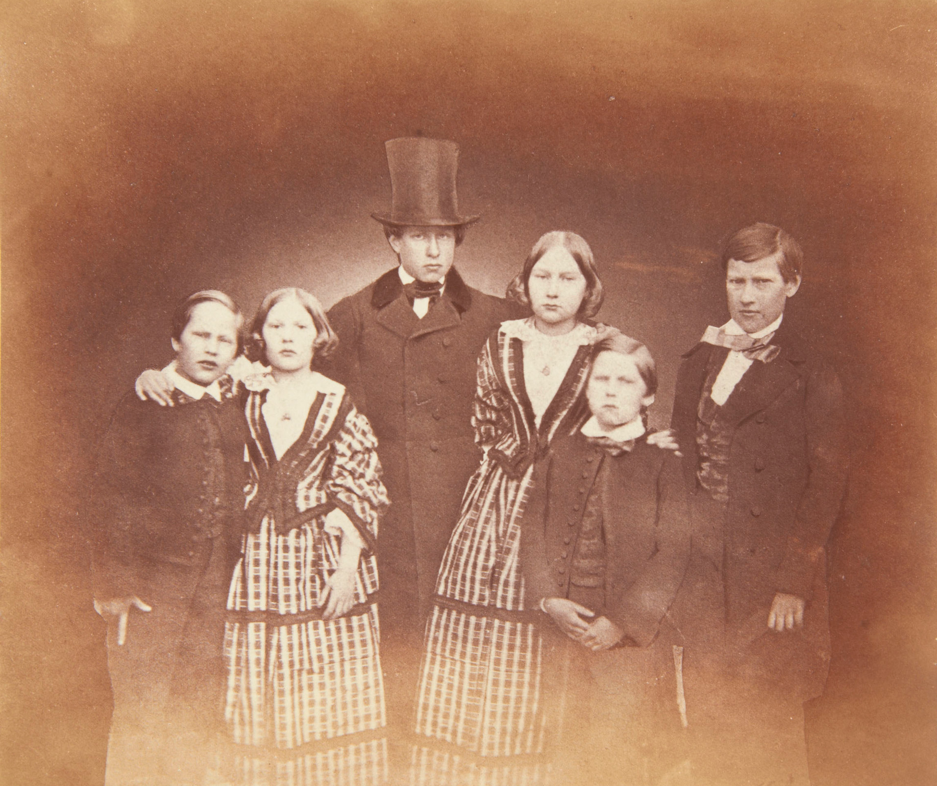 Photograph of a group of the children of Maria II of Portugal with from left to right: Dom Fernando (1846-61); Doña Antonia (1845-1913); Dom Luis (1838-89) who wears a top hat, later King Luis I of Portugal; Doña Maria (1843-84), later Crown Princess of Saxony; Dom Augusto (1847-89) and Dom Joao (1842-61), Duke of Beja